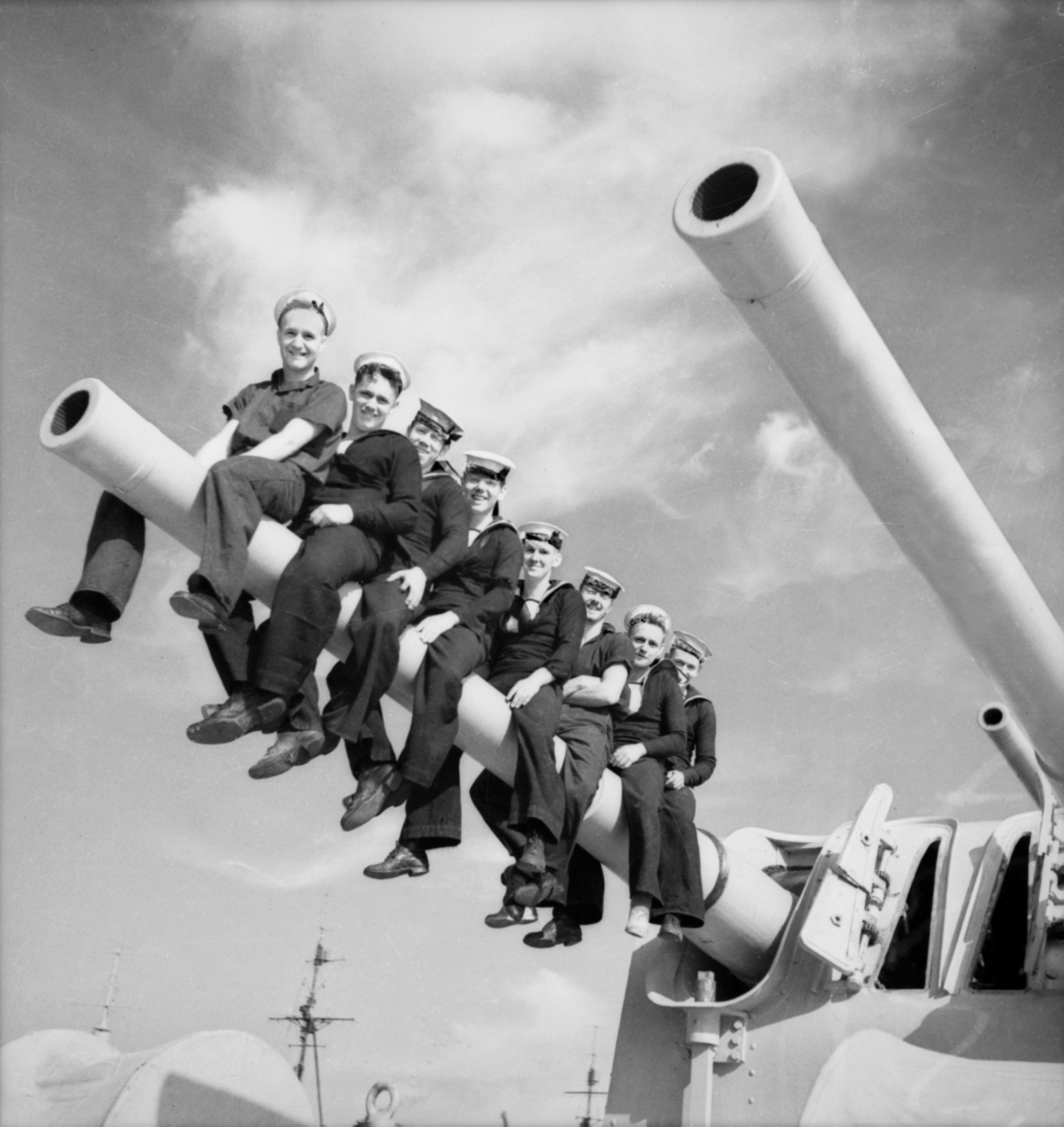 AWM caption : "MEDITERRANEAN AREA, 1941. SOME CREW MEMBERS OF HMAS PERTH ASTRIDE ONE OF THE SHIP'S BIG GUNS."